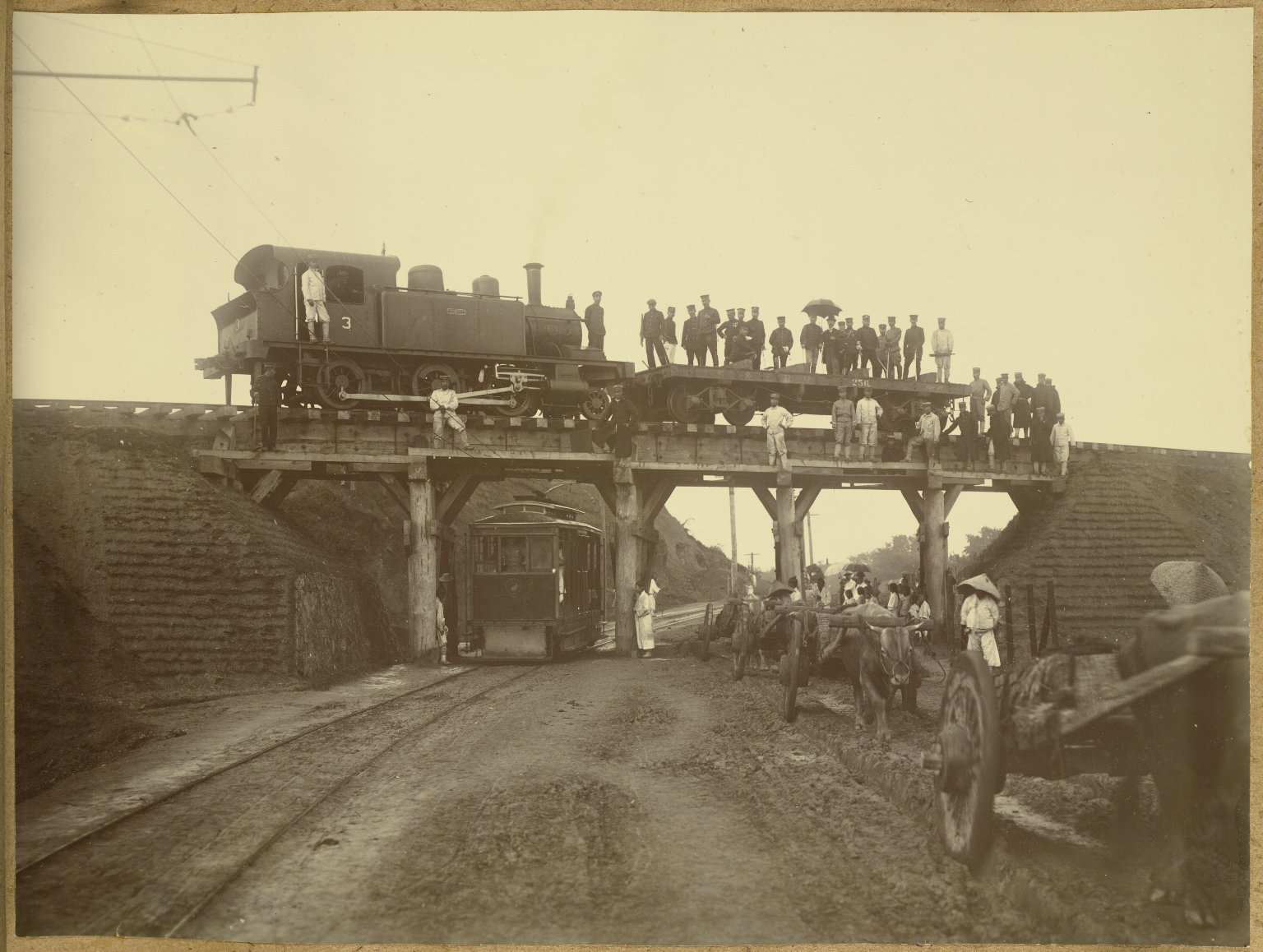 Collection: Willard Dickerman Straight and Early U.S.-Korea Diplomatic Relations, Cornell University Library Title: [Locomotive on bridge over streetcar] Date: ca. 1904 Place: Asia: South Korea Type: Photographs Description: The picture shows the modernized old Korea. King 'Kojong' believed that the new western technology such as electricity, streetcars, gold mining, and railroads could made the nation wealthy and strong. The location is probably at the outskirts of Seoul, where the new tramcar was installed in 1899. Identifier: 1260.57.37.01 Persistent URI: There are no known U.S. copyright restrictions on this image. The digital file is owned by the Cornell University Library which is making it freely available with the request that, when possible, the Library be credited as its source. We had some help with the geocoding from Web Services by Yahoo!